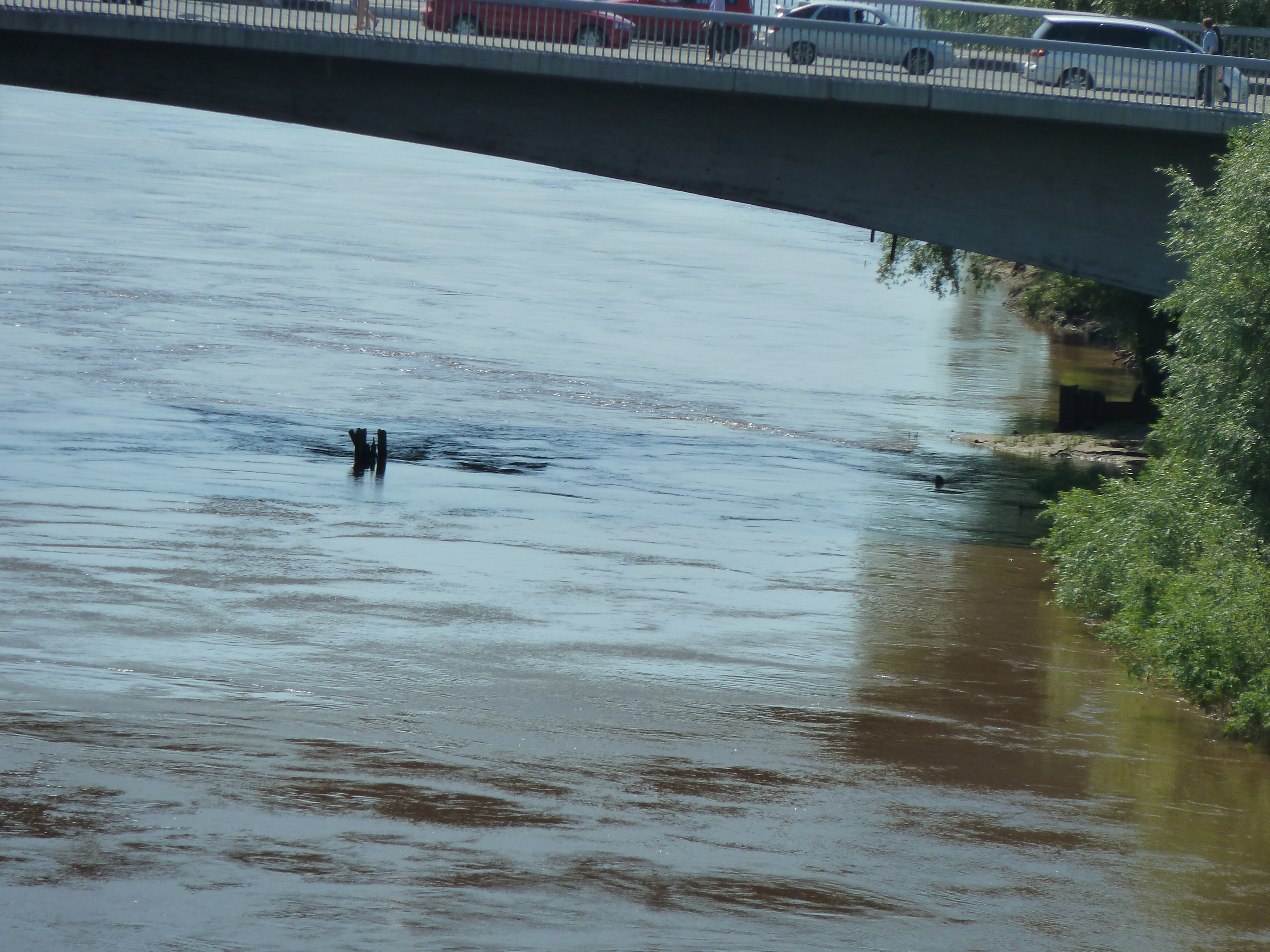 Parts of old wooden bridge abutments under the Yubileyniy bridge in Omsk, Russia.